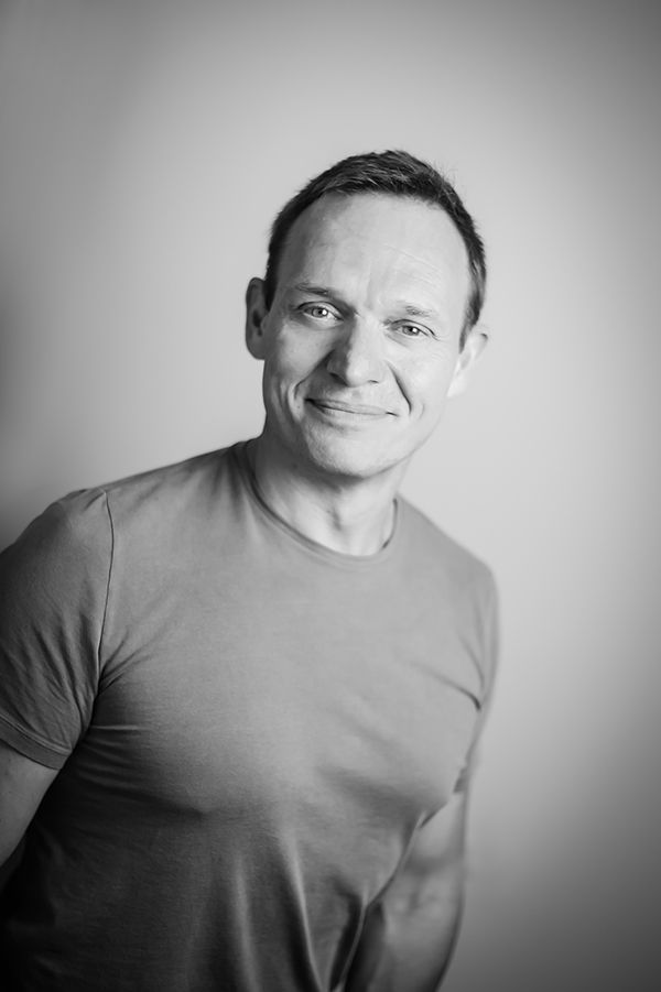 Photo by Amy Strzalko. Dec 2014